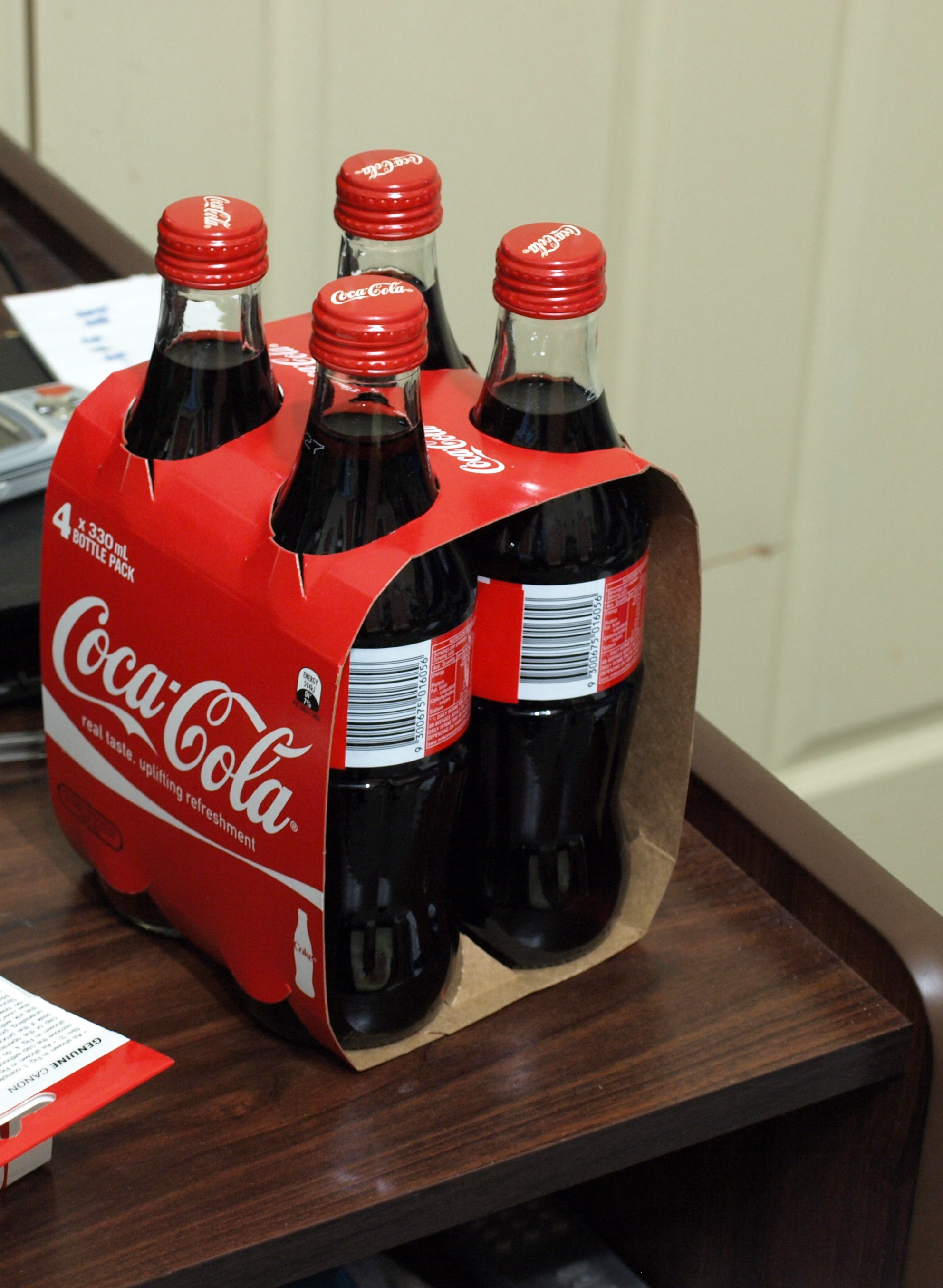 Coca-Cola in glass bottles.